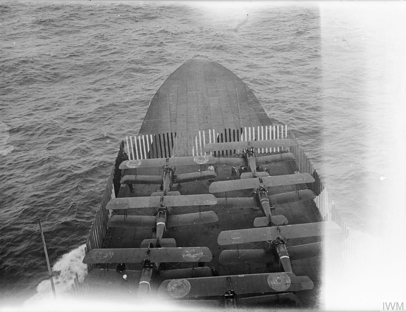 Looking down on Sopwith Camels on the flight deck of British aircraft carrier HMS Furious during the approach to the raid on the German airship hangars at Tondern.